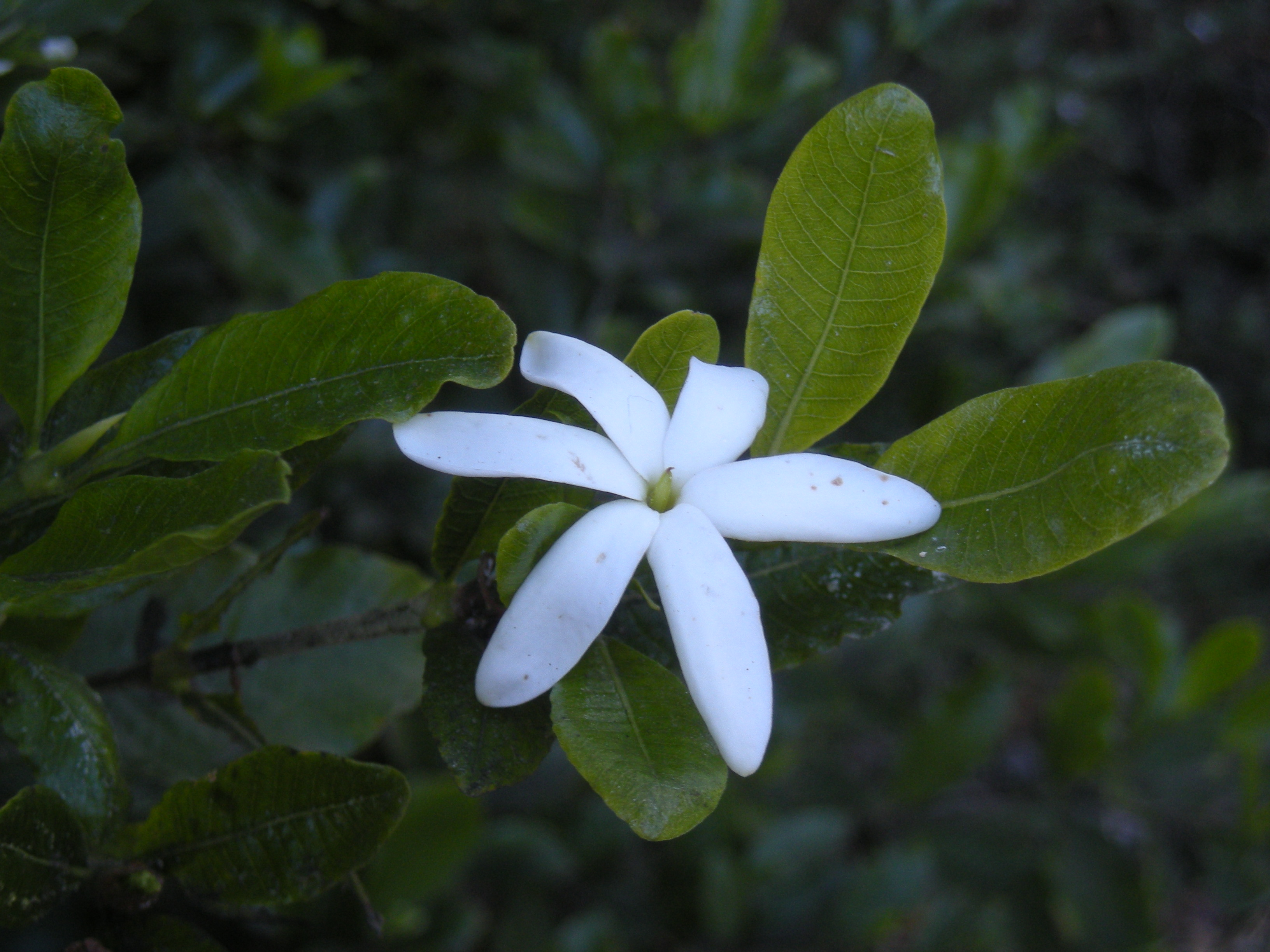 Gardenia psidioides flower